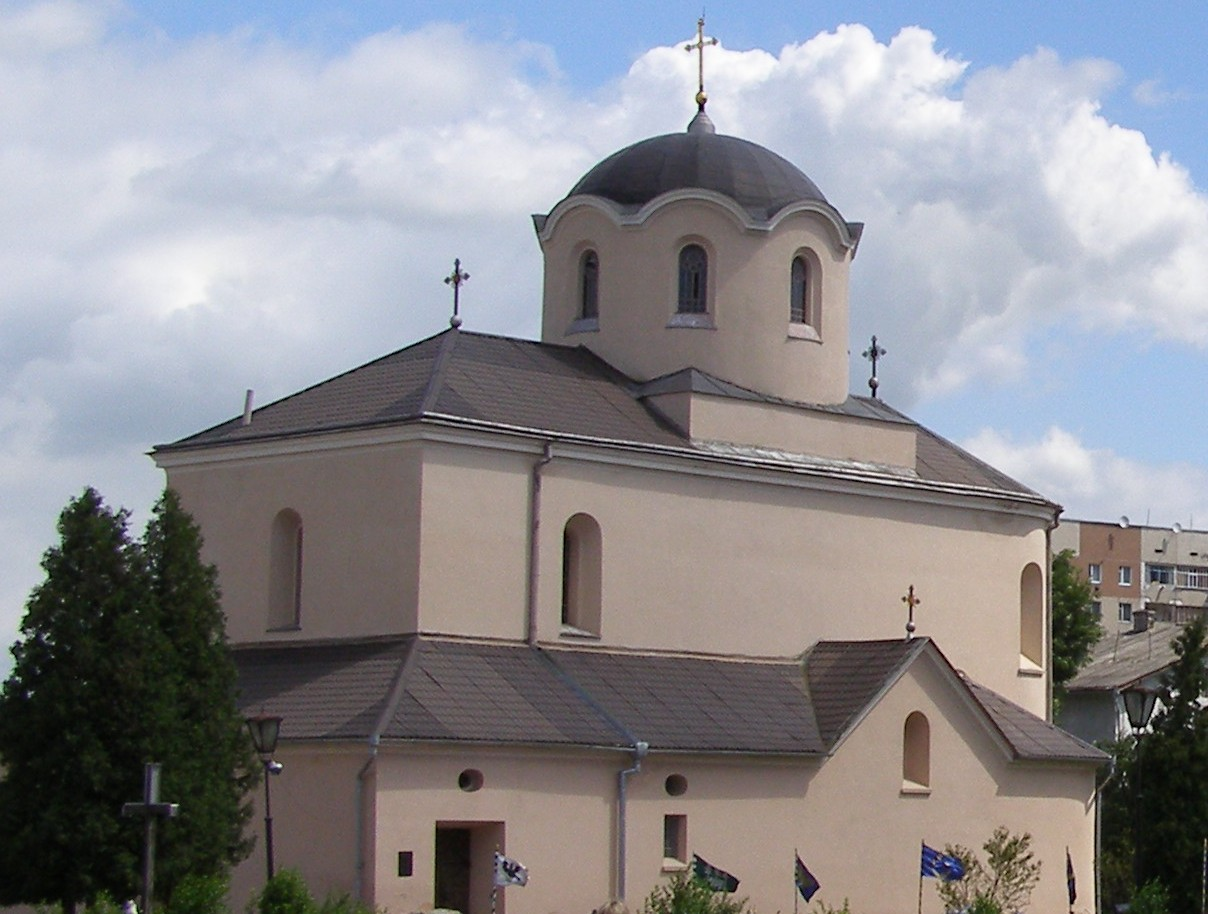 Church in the center of ancient city of Halych, Ivano-Frankivsk Oblast, western Ukraine.